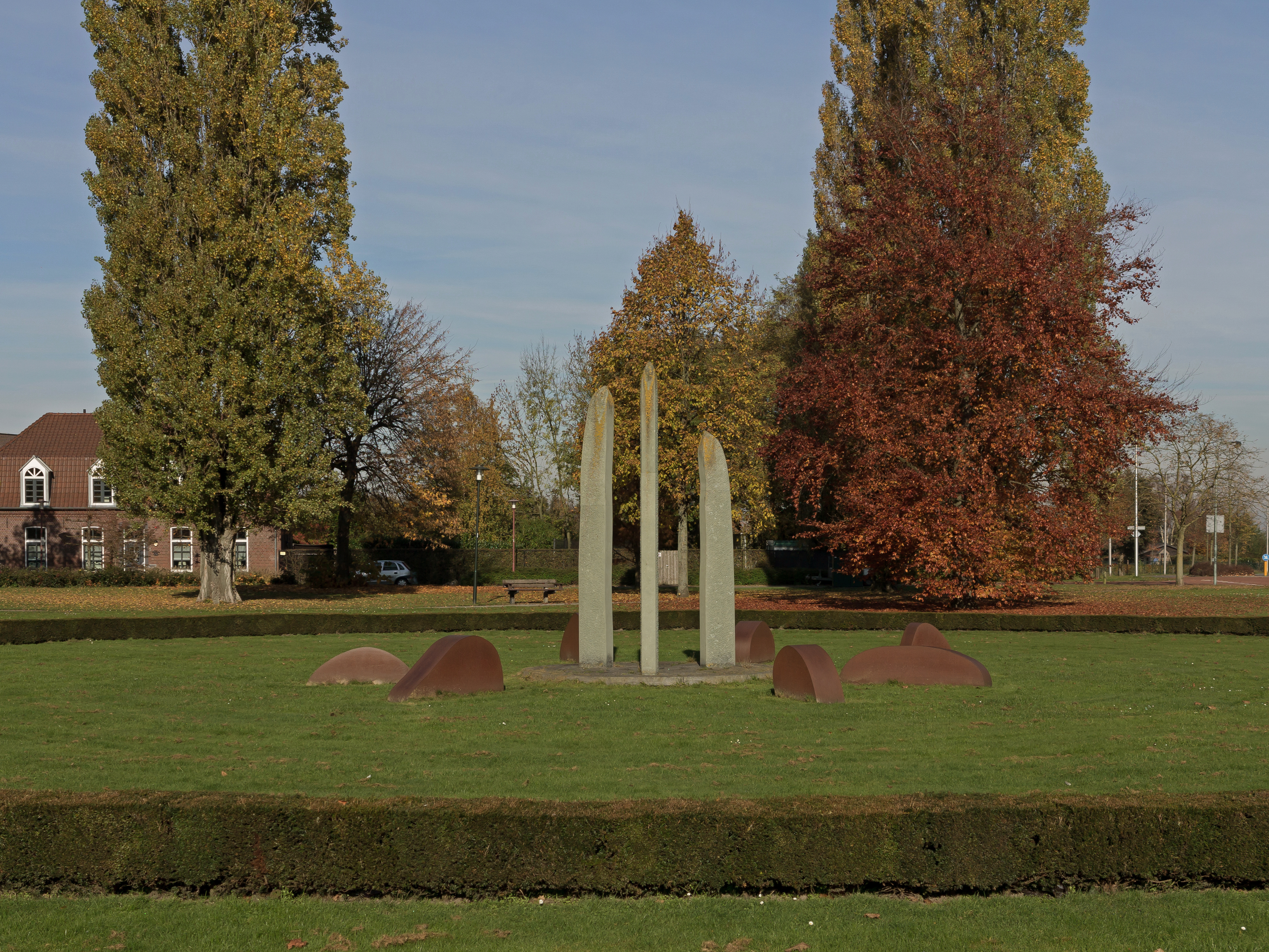 Grubbenvorst, sculpture in the street